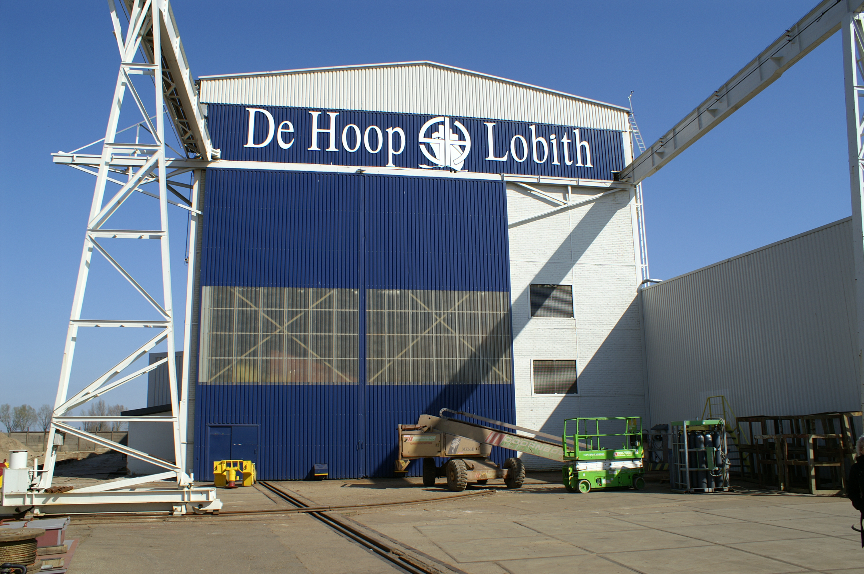 Shipyard De Hoop in Rijnwaarden-Lobith-Tolkamer (Netherlands)